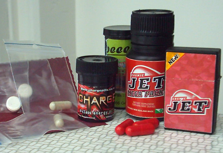 A few brands of BZP available in New Zealand.